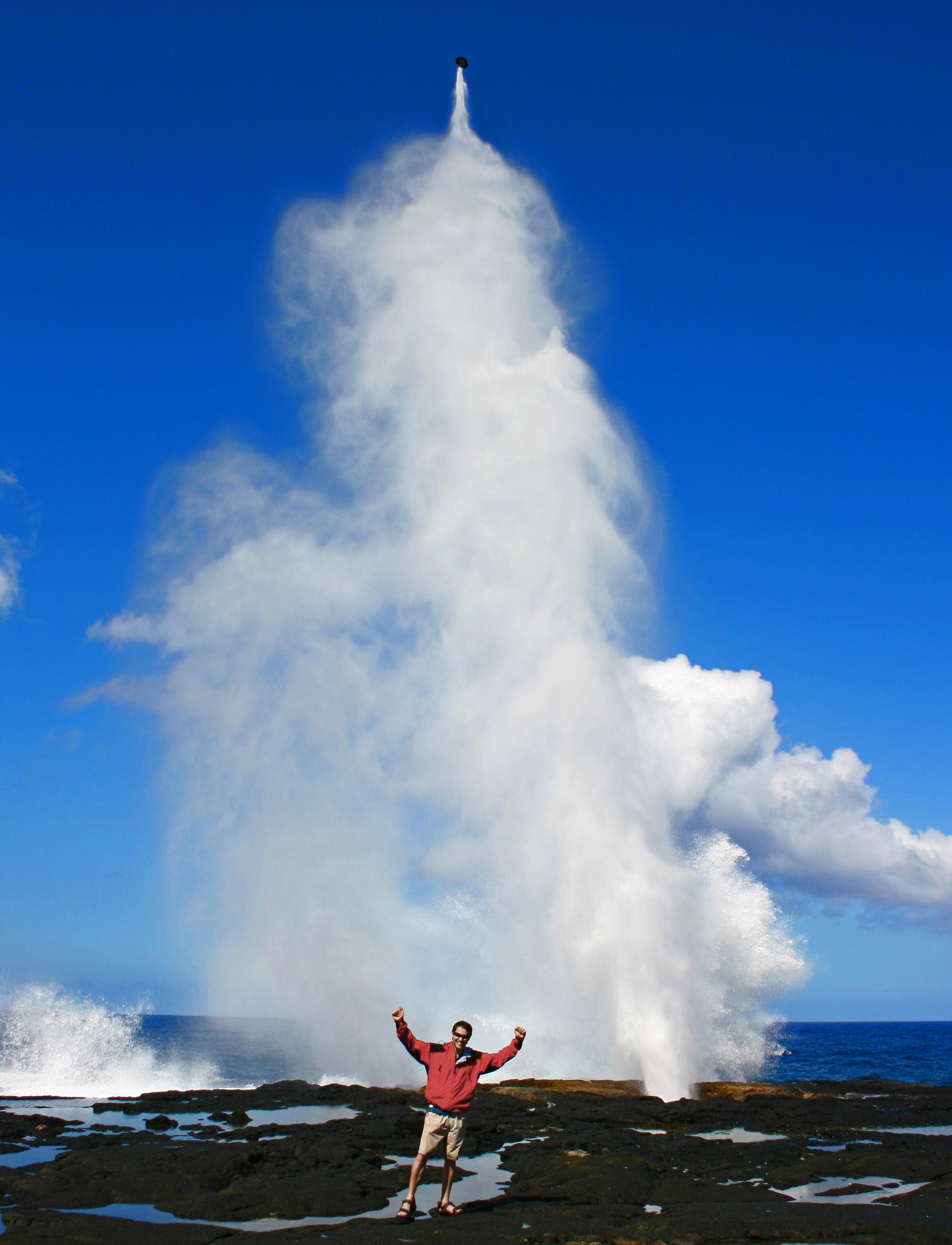 Alofa'aga Blowholes - Savai'i Coconut shooting - The man that throws in the coconuts has the best job in the world!